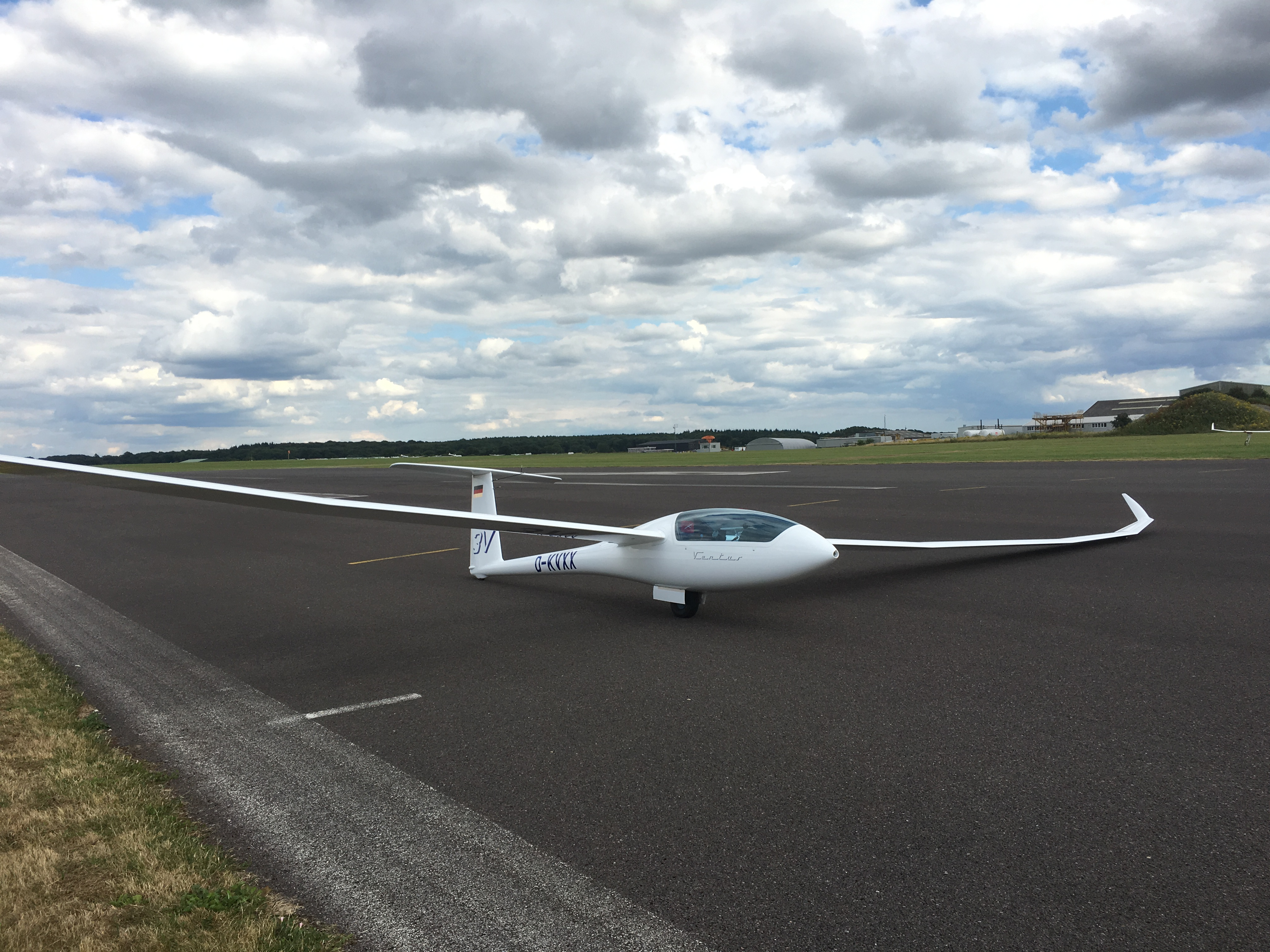 Schempp-Hirth Ventus 3 glider at Lasham Airfield 31 July 2016